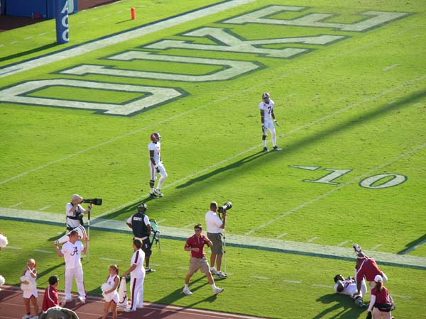 DeAndrew White (#2) and Kenny Bell (#7) on the field during warm-ups near the southern end zone of Wallace Wade Stadium at Duke University.